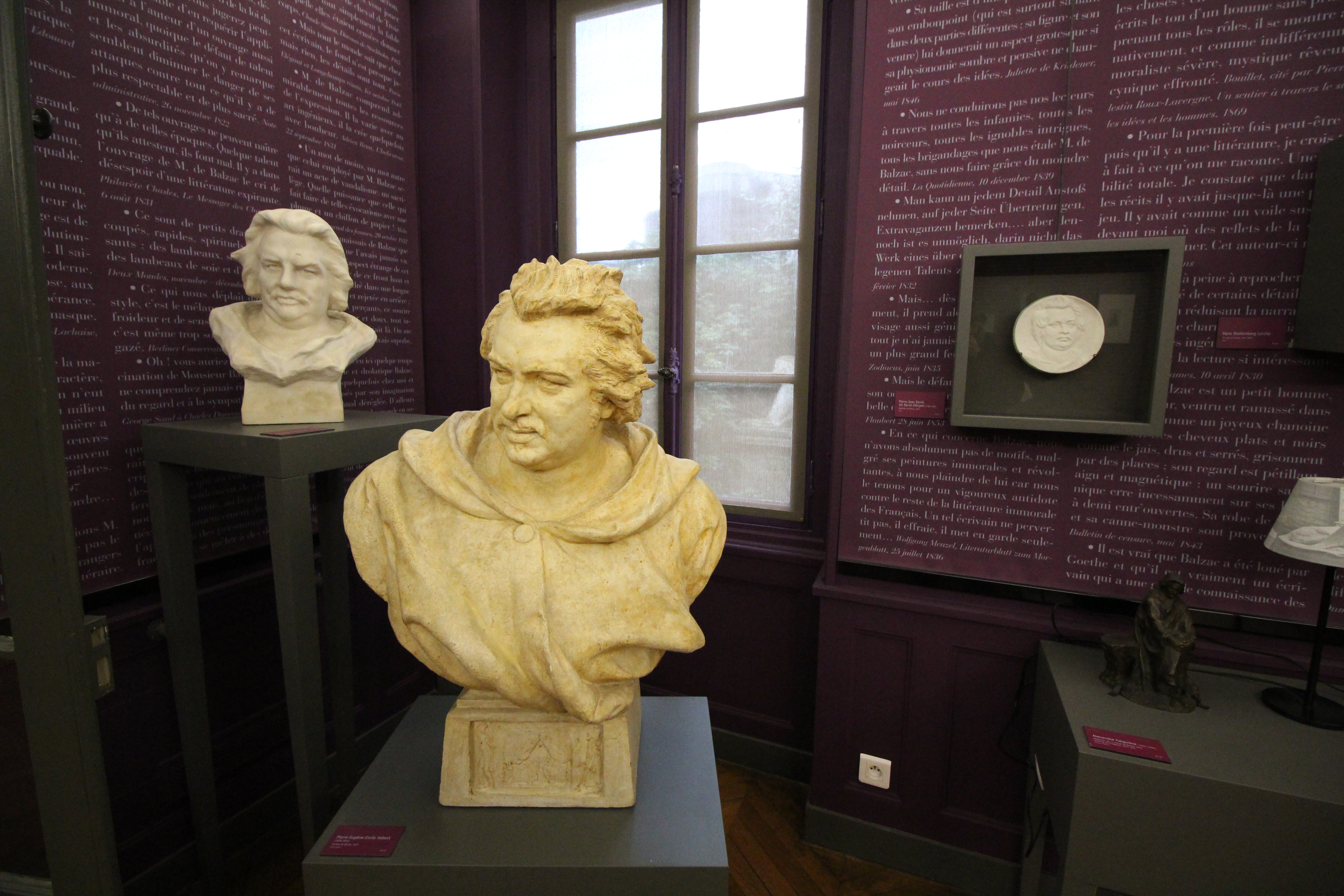 Maison de Balzac, 47, rue Raynouard, Paris.